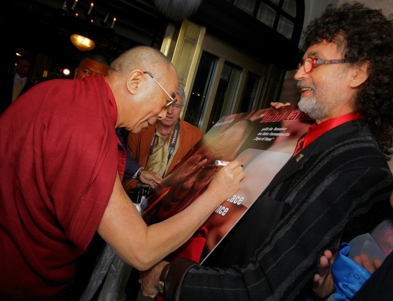 The Dalai Lama signing his own sign for the "Fernwehpark" in Hof, Germany.